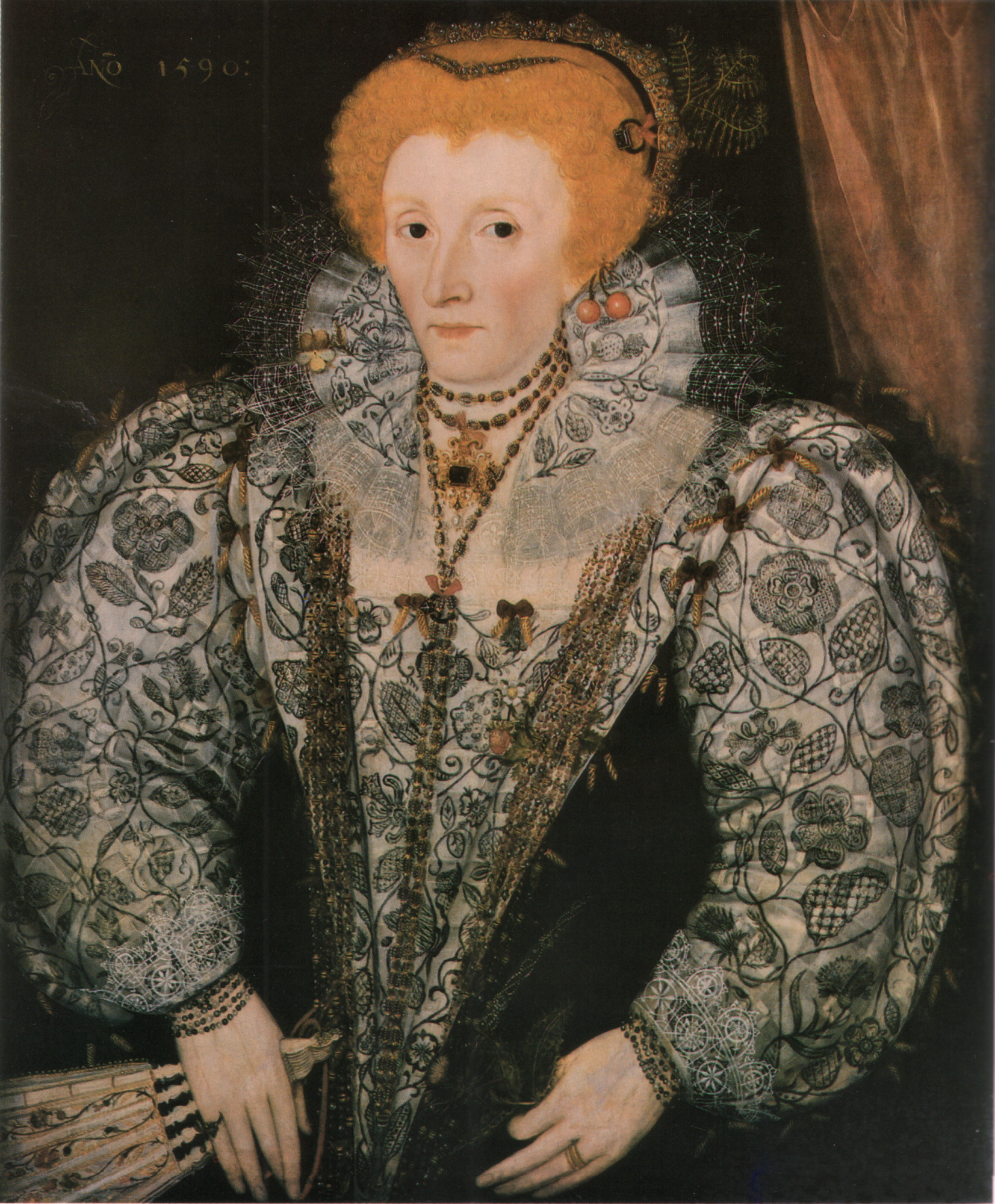 Portrait of Elizabeth I of England, at Jesus College, Oxford